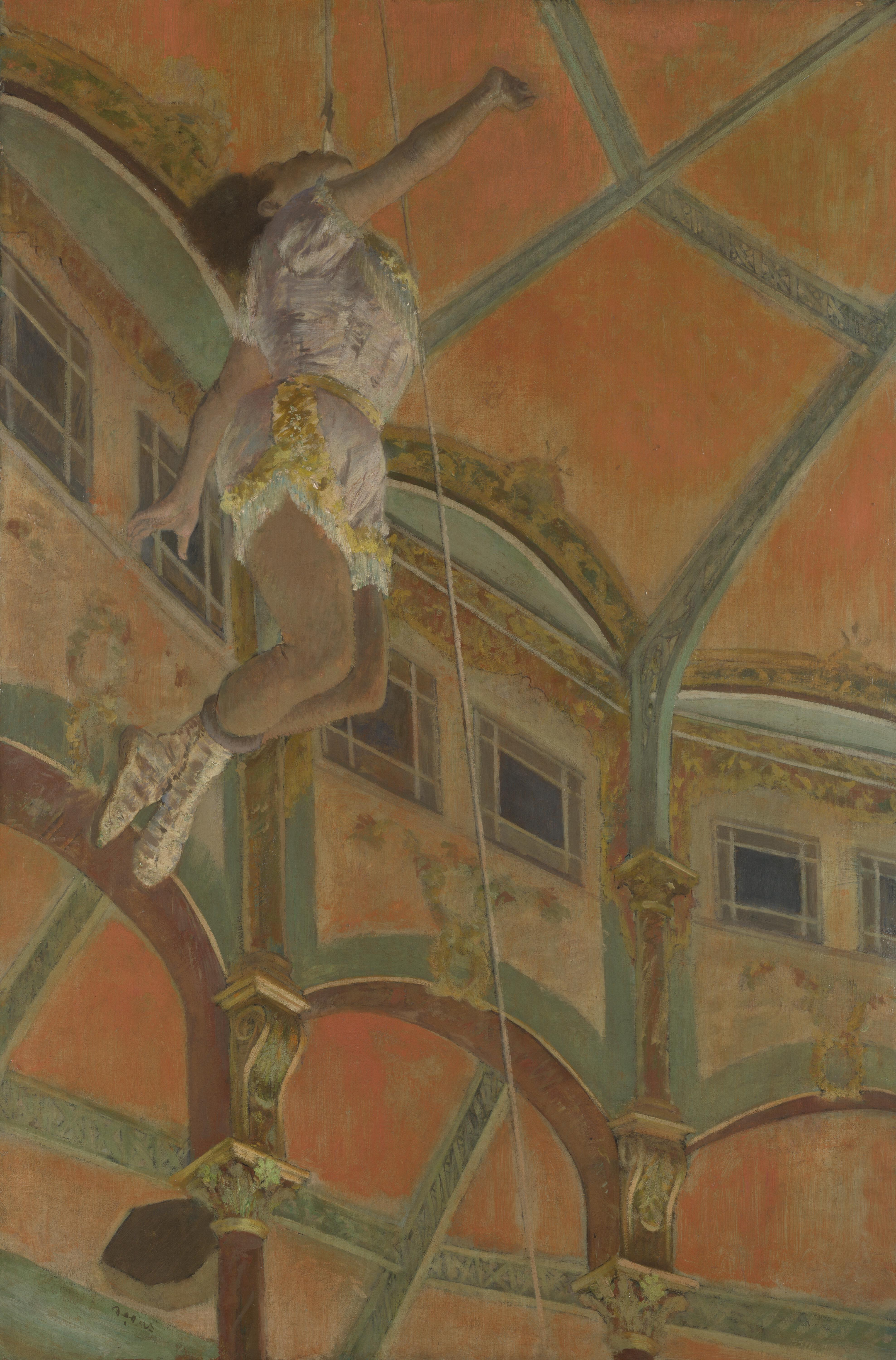 The acrobat Miss La La caused a sensation when she performed at the Cirque Fernando in Paris. Here she is shown suspended from the rafters of the circus dome by a rope clenched between her teeth. Degas sought out such striking modern subjects, concentrating on figures in arresting poses. In January 1879 he make a series of drawings at the Cirque Fernando including a pastel study of Miss La La (London, Tate Gallery), which culminated in this painting. We view the spectacle as the audience would have done, gazing up at the daring feat taking place above.